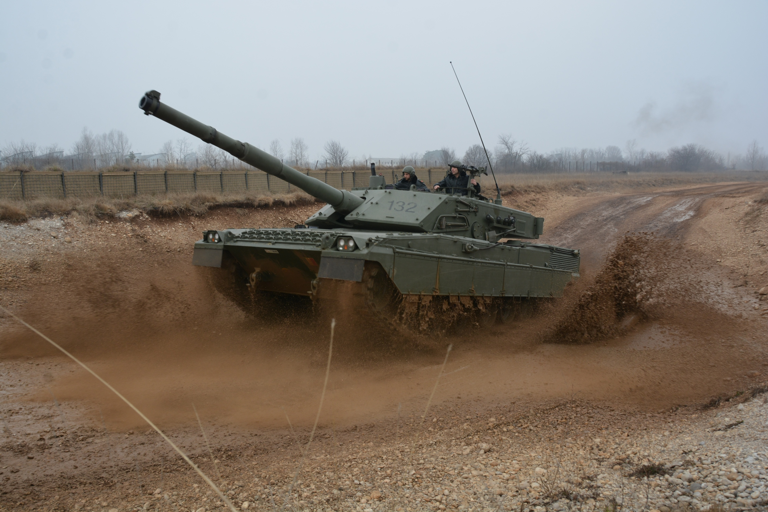 Italian Army 132nd Tank Regiment Ariete main battle tank